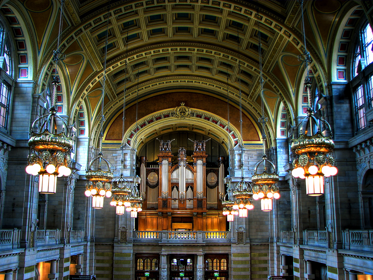 Main Hall at Kelvingrove Art Gallery & Museum, Glasgow Plenty of details (lamps, organ, ceiling, etc) when viewed LARGE